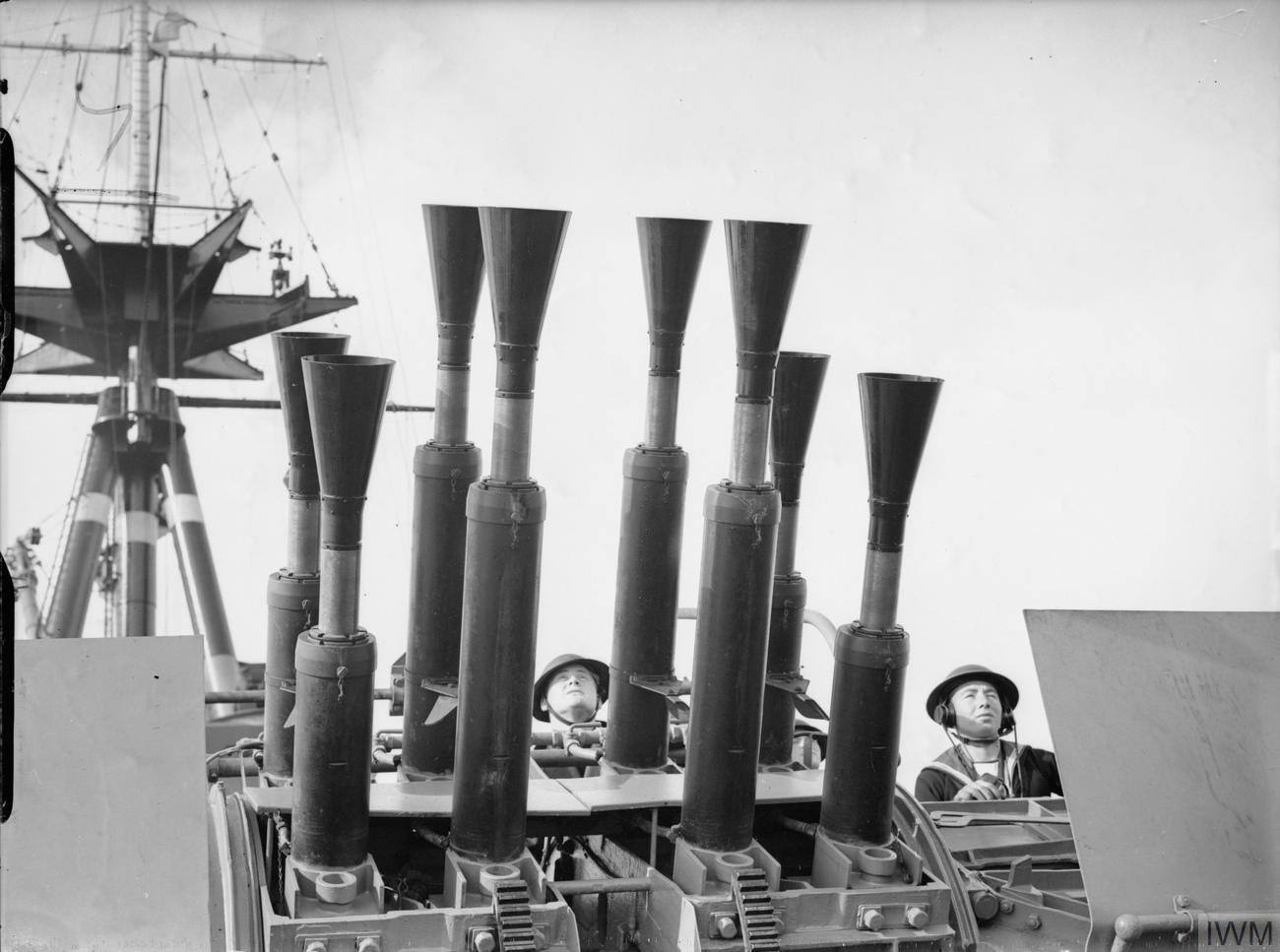 IWM caption : "View from below one of the eight barrelled Vickers two pounder Mark VIII 'pom-pom' guns on board HMS RODNEY. Two of the sailors manning it can be seen in the background."